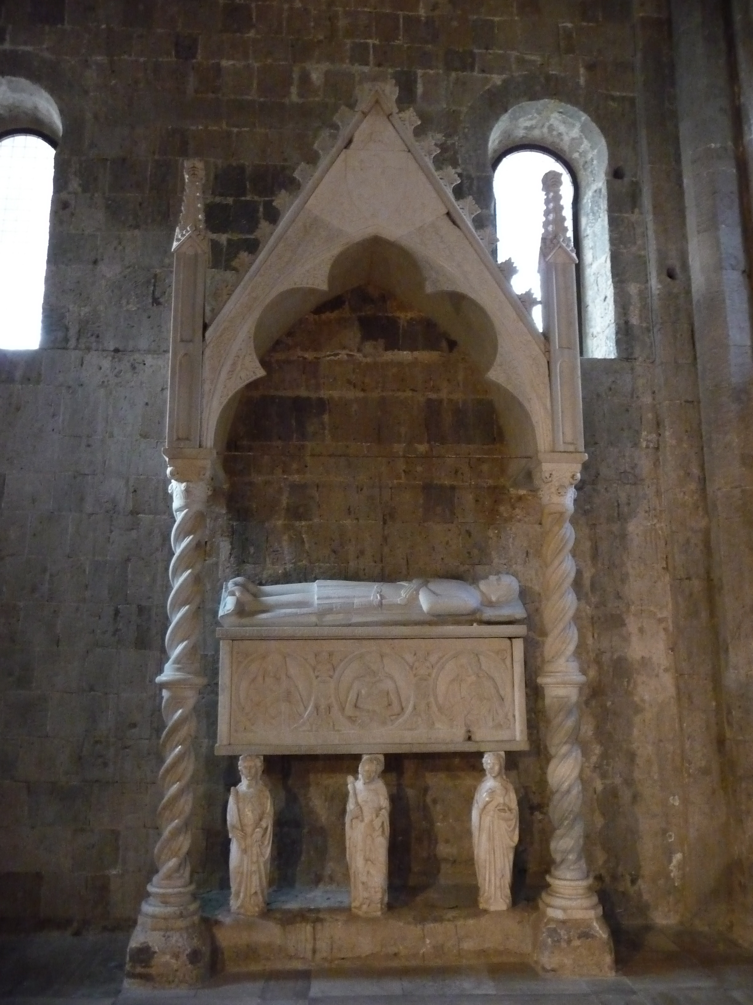 Cathedral of San Michele Arcangelo in Casertavecchia, province of Caserta.